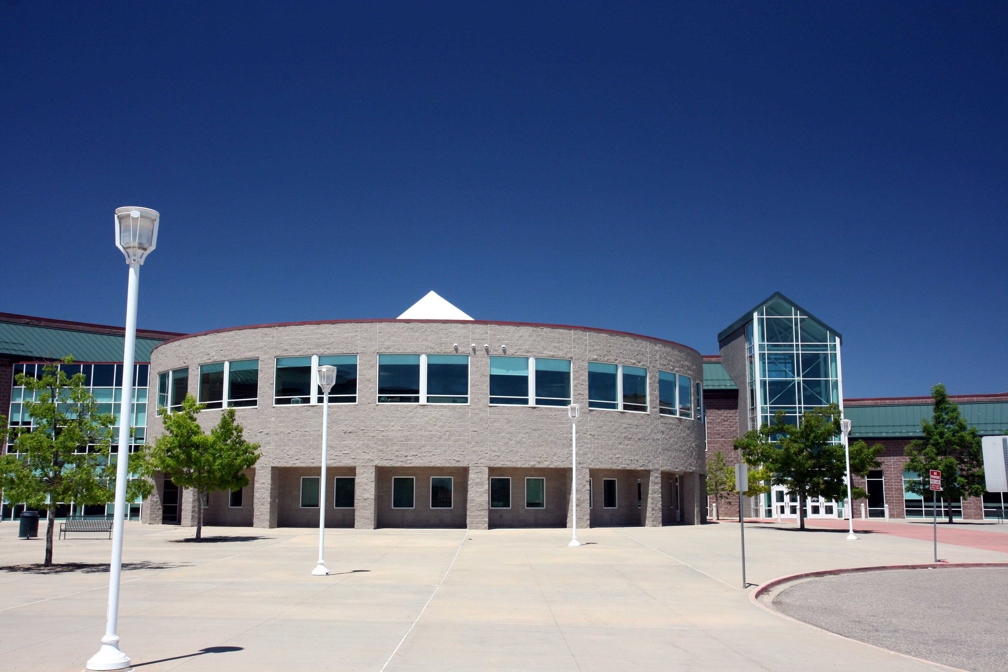 Photo of Silver Creek High School at Longmont, Colorado